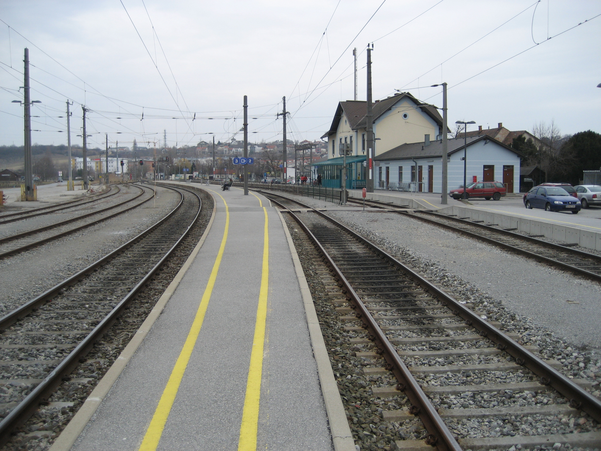 train station Neusiedl am See in Burgenland